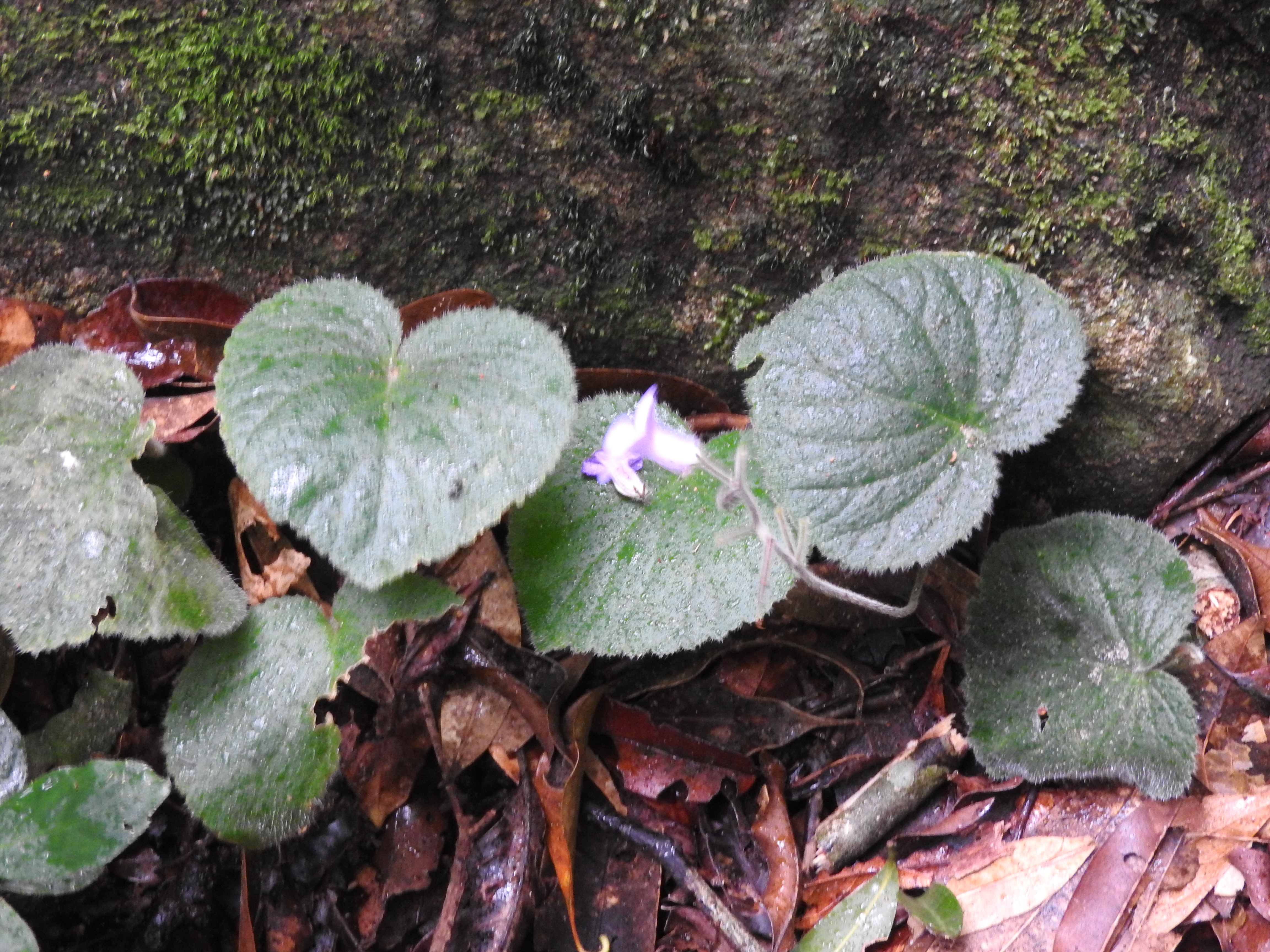 Gesneriaceae-herb,stem tomentose,flowers blue.